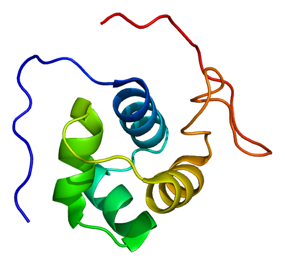 Structure of the EDF1 protein. Based on PyMOL rendering of PDB 1x57.